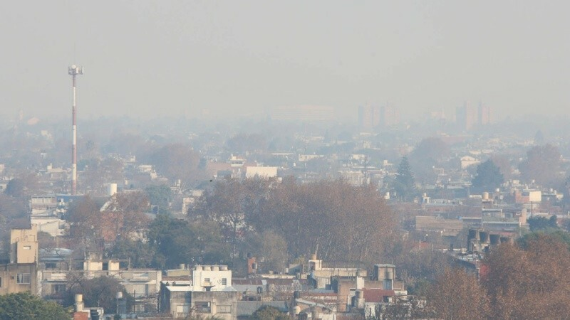 Smoke in Rosario, Argentina caused by the 2020 Delta del Paraná wildfires